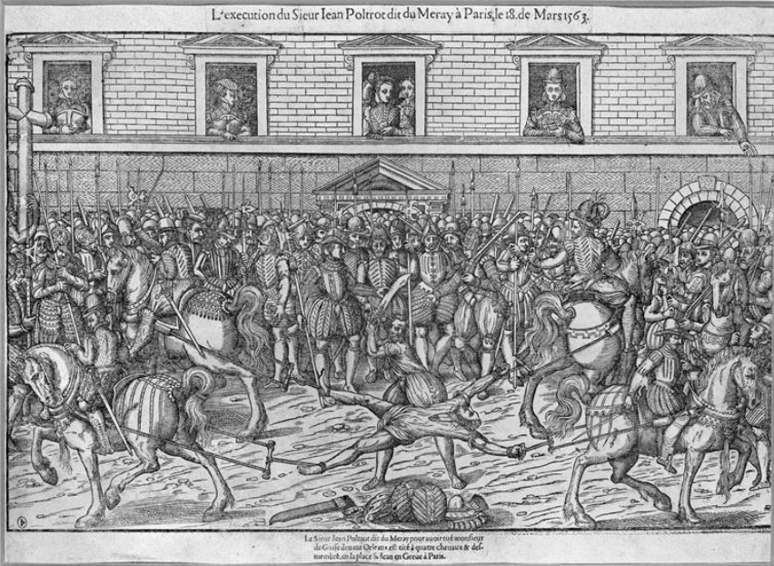 Poltrot de Mere in the streets of Paris surrounded by a large crowd is slowly pulled apart by four horses as they look on.